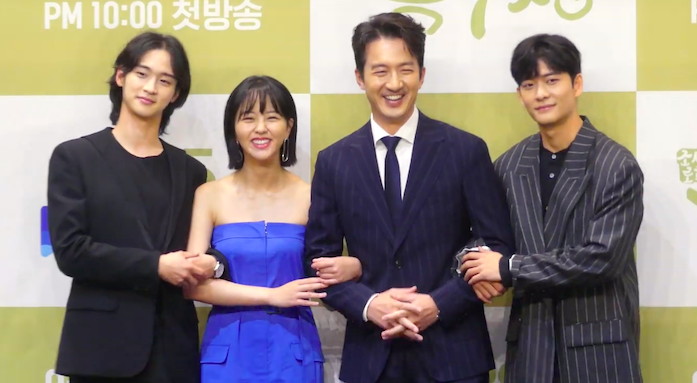 The main casts of The Tale of Nokdu at the press conference on September 30, 2019.